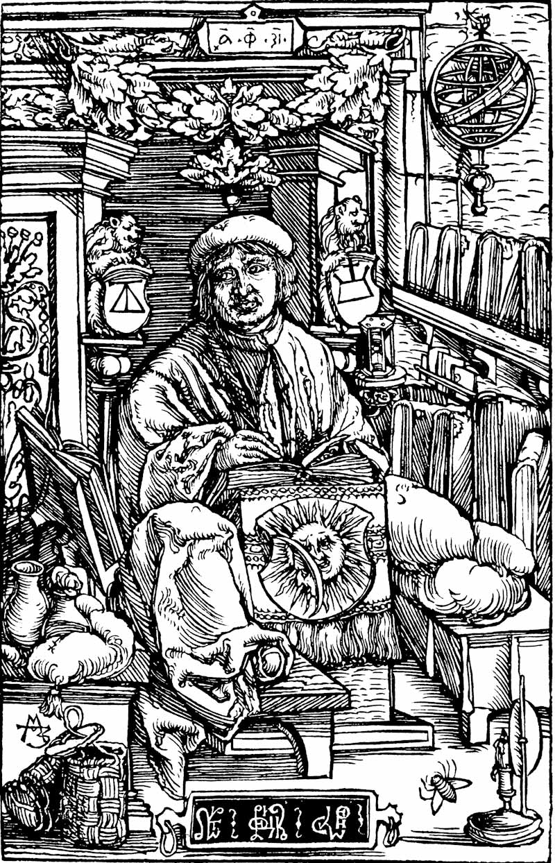 Graving with Francišak Skaryna